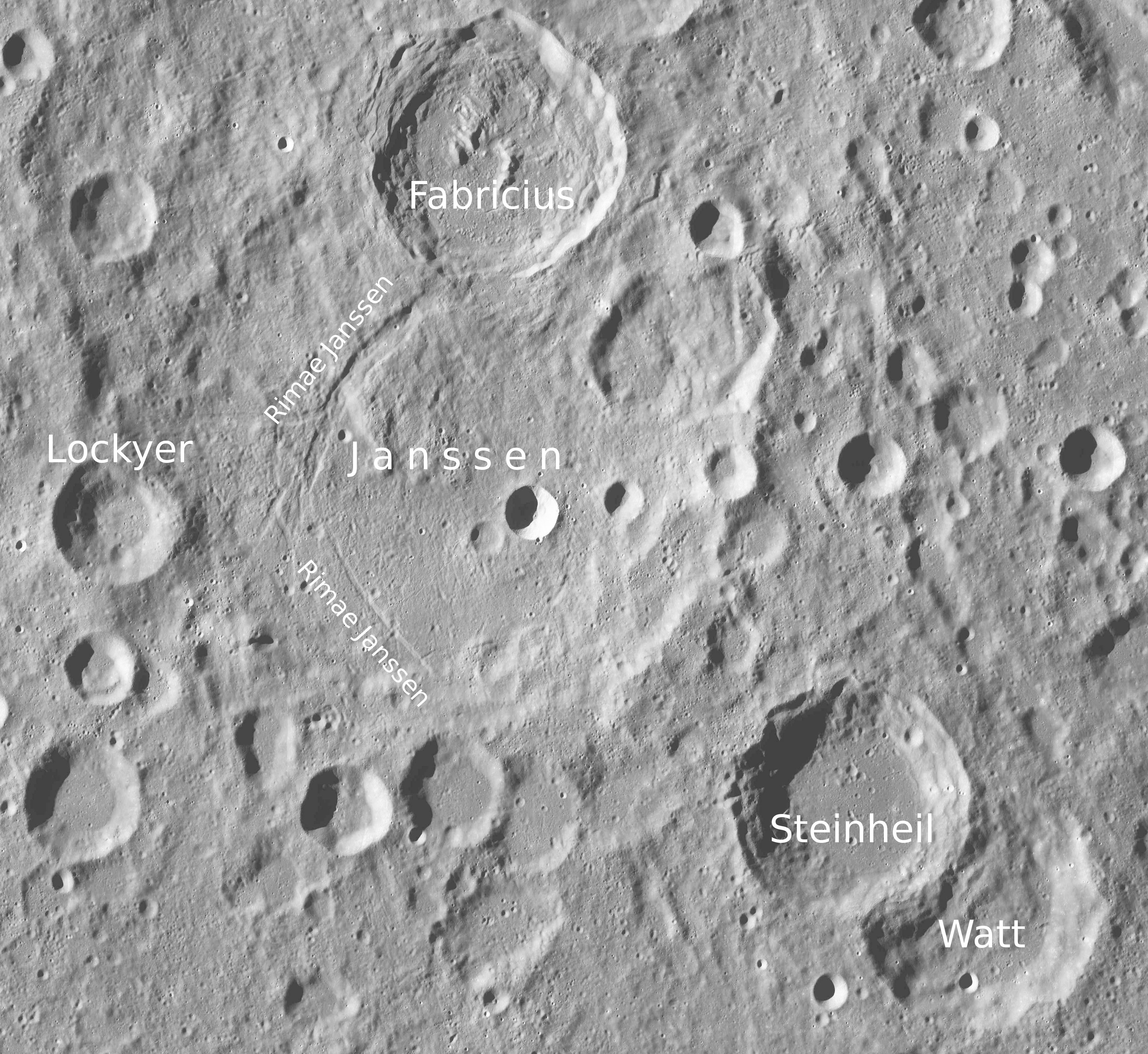 Craters Janssen, Fabricius, Steinheil and Watt (detail of LRO - WAC global moon mosaic; Mercator projection)